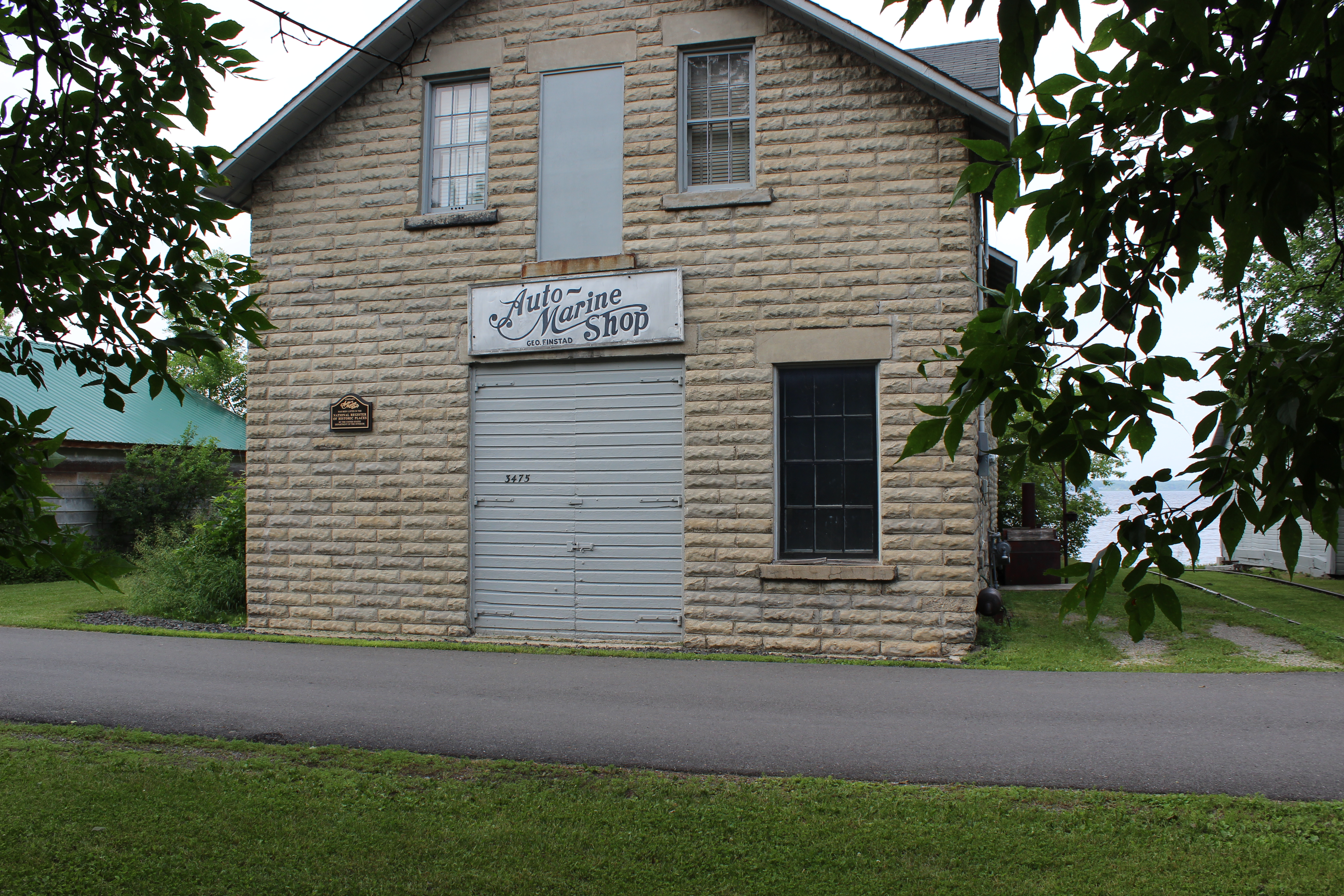 Machine Shop and Marina